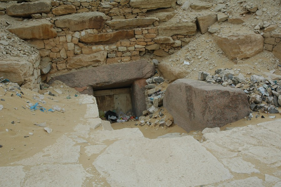 Entrance of the pyramid of the Djedkare-Isesi on its north side, south Saqqara, late 5th dynasty, ca. 2400 BC